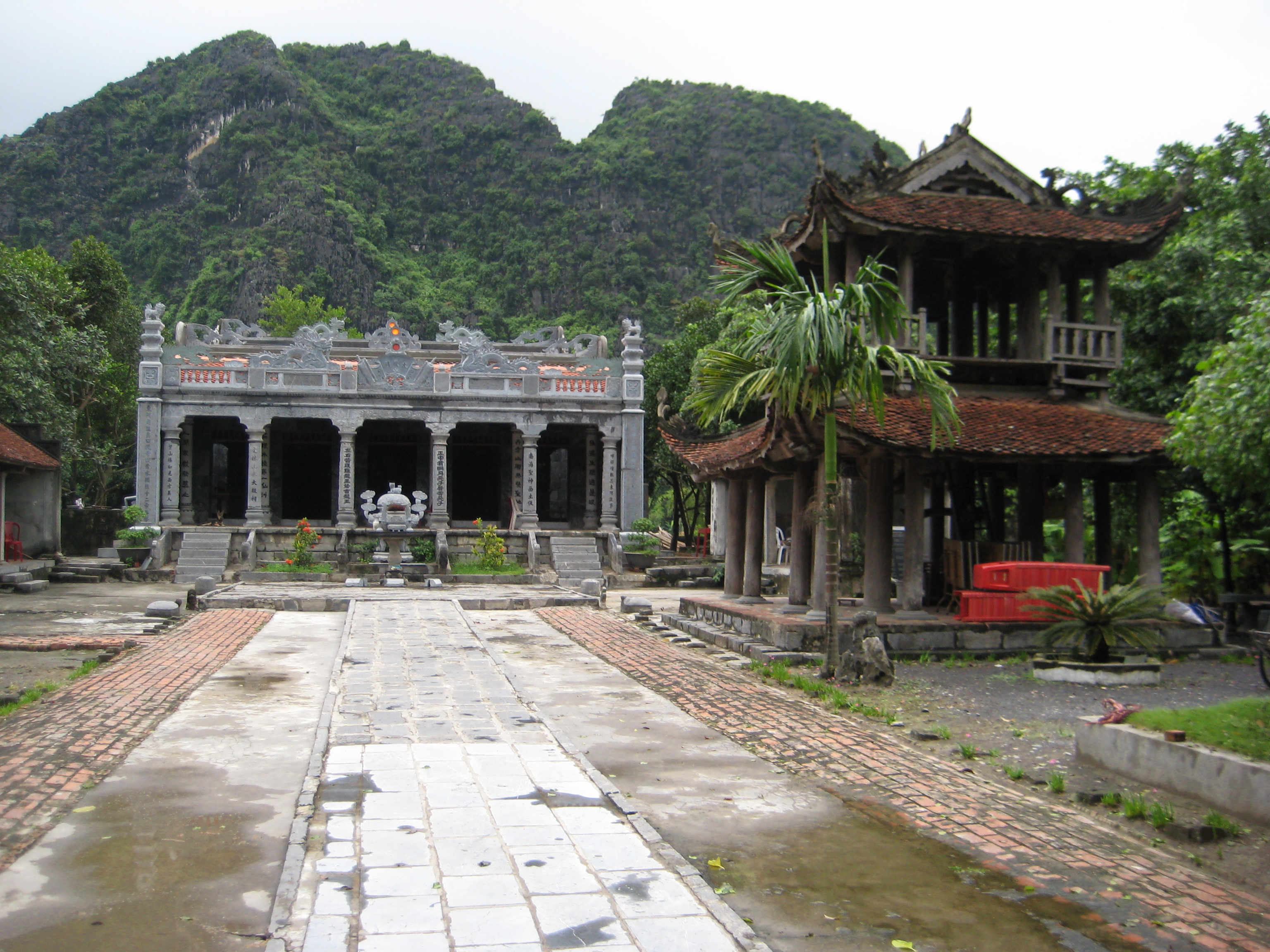 Thai Vi Palace